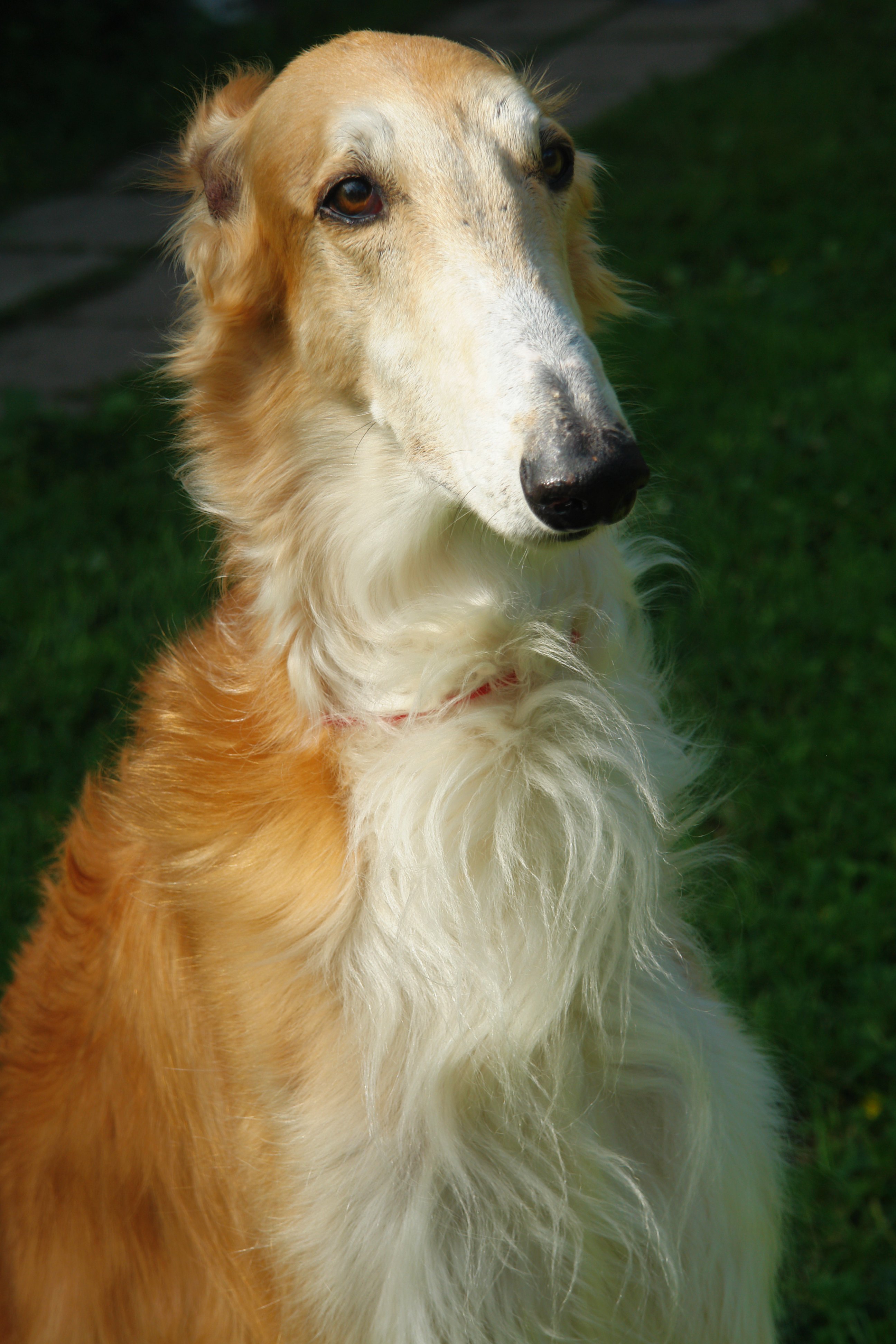 русская псовая борзая (Russian Borzoi)